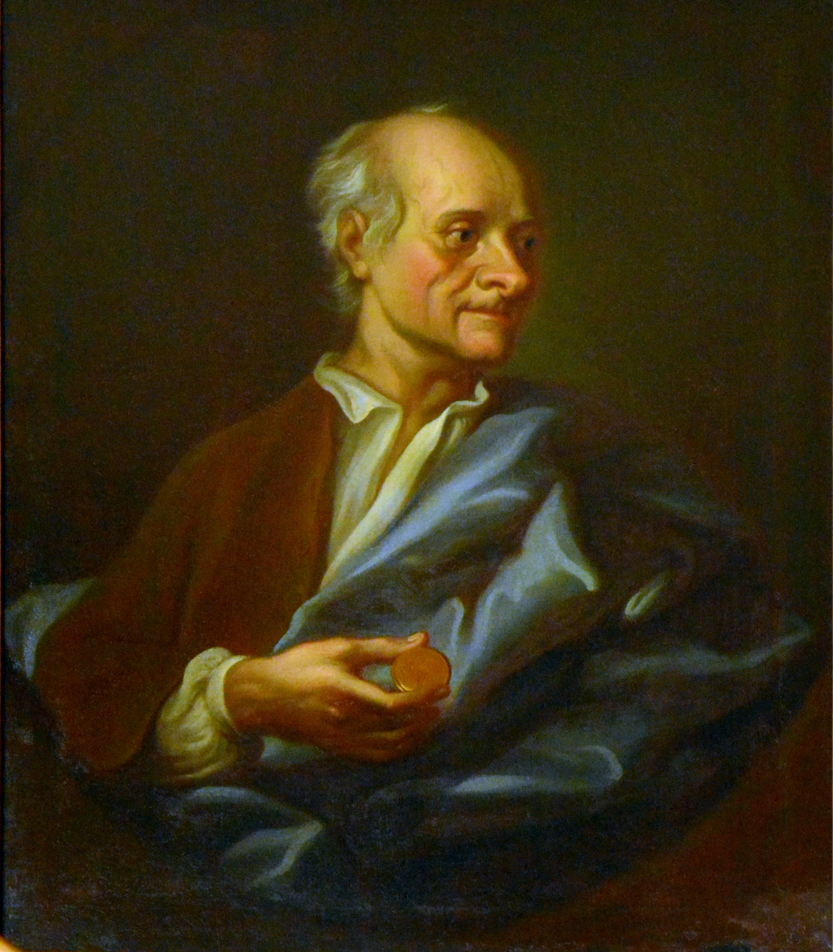 Portrait of Nils Keder, Swedish